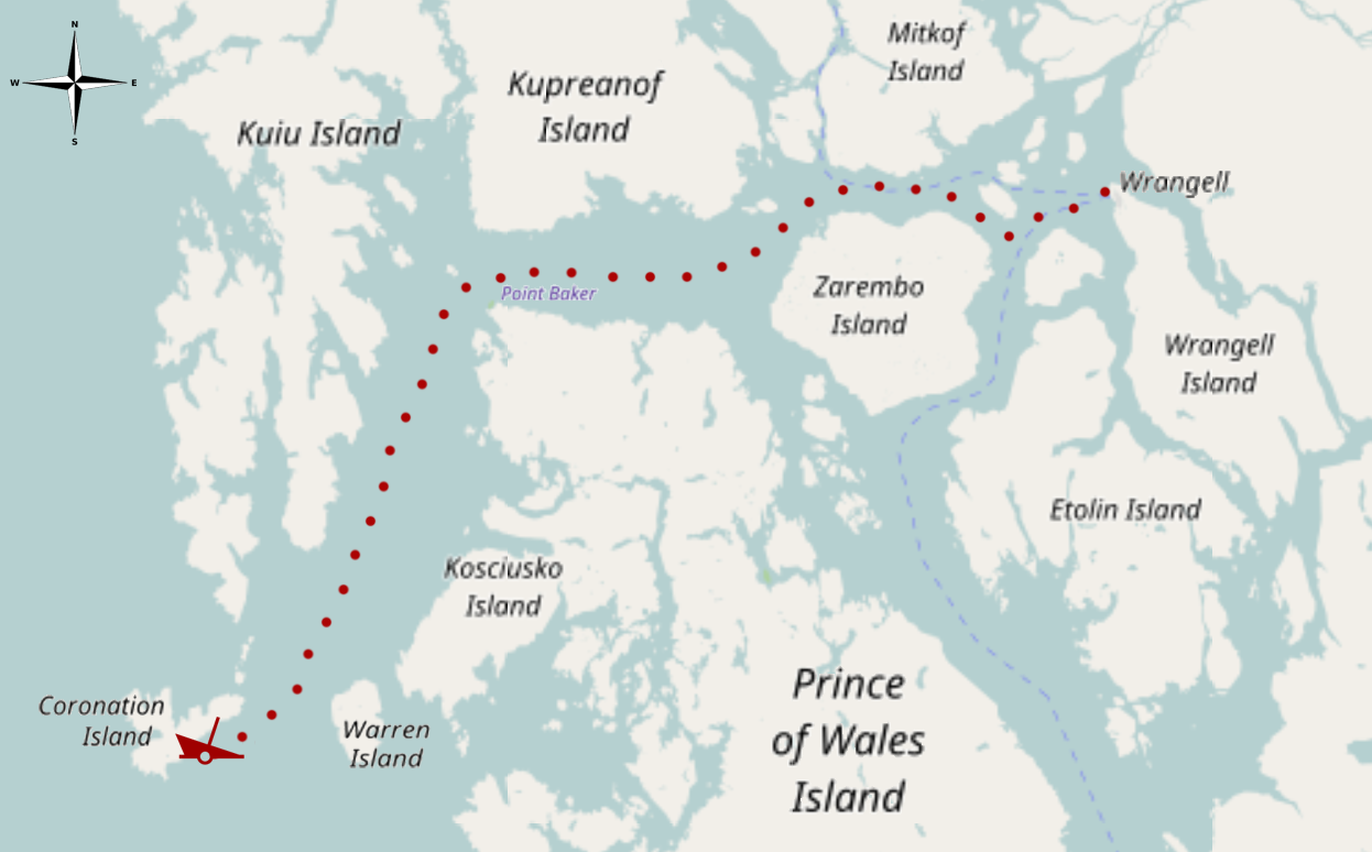 The Star of Bengal's final voyage, September 19-20, 1908 from Fort Wrangell to her wreck at Coronation Island (Alaska). Created with OpenStreetMap data.